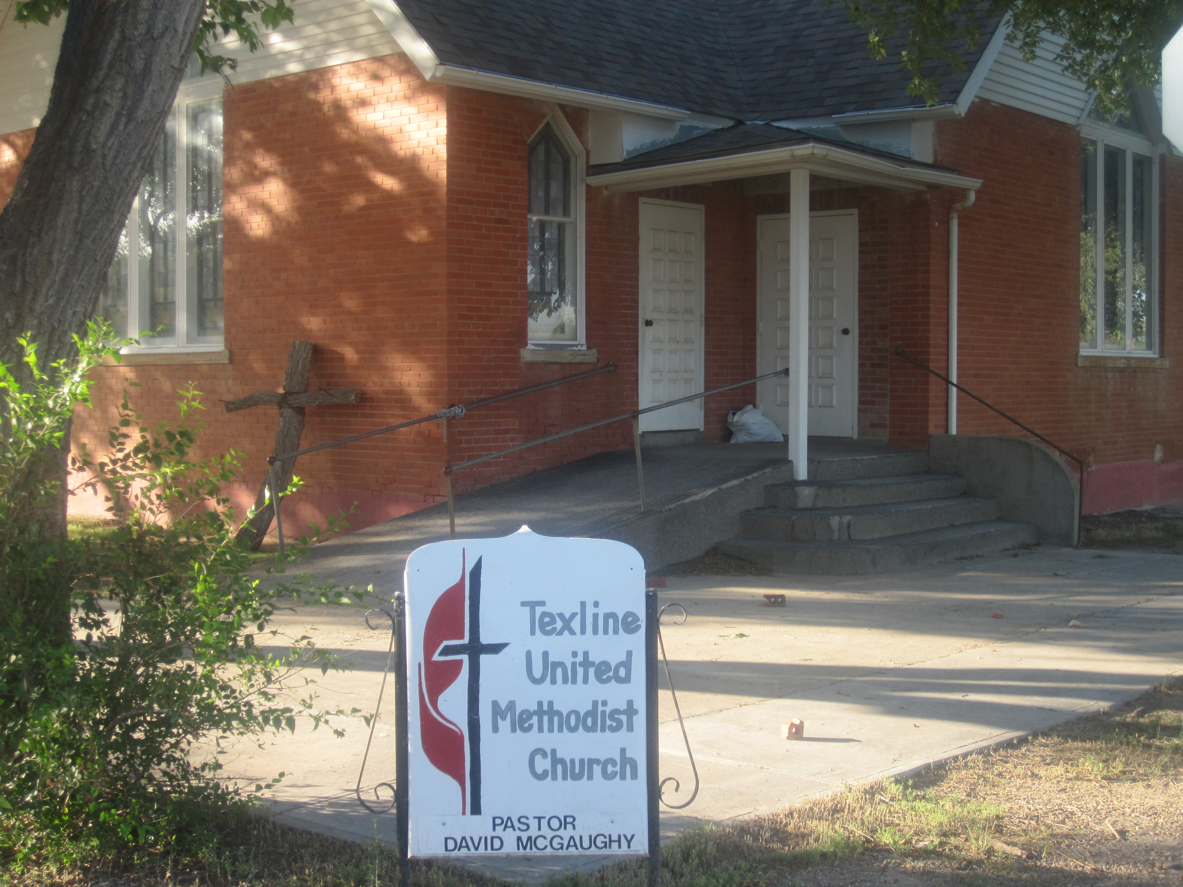 I took photo with Canon camera in Texline, TX.